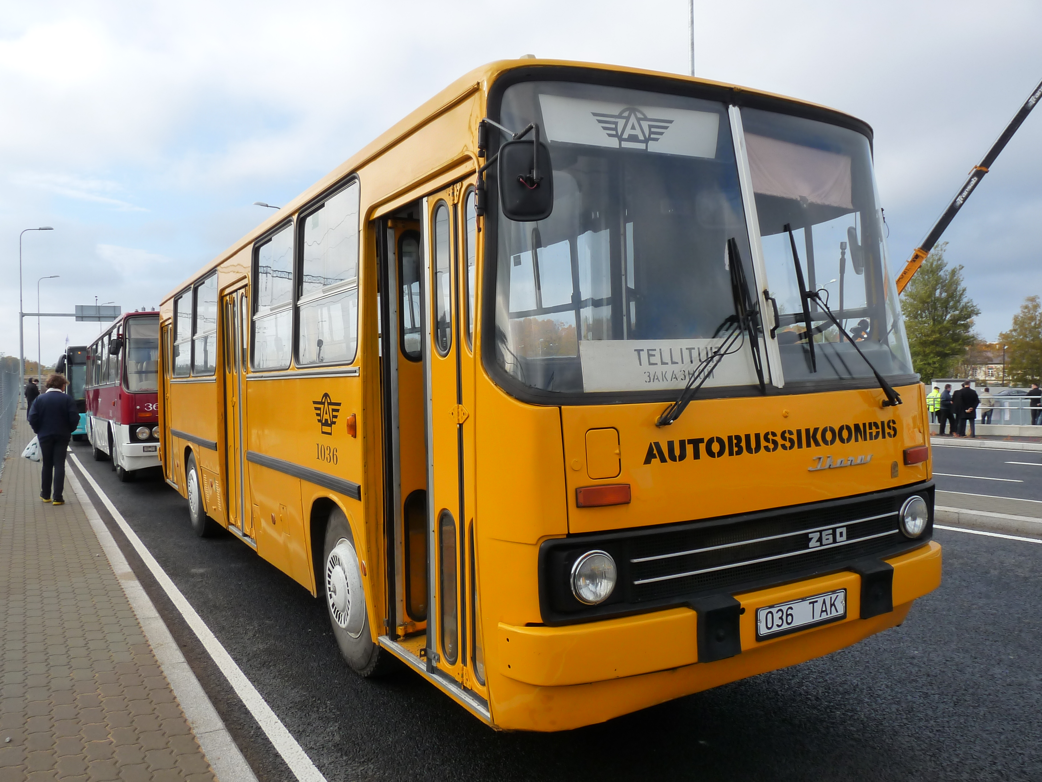 Ikarus 260 in Tallinn, Estonia